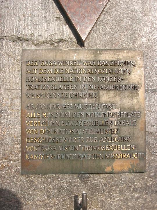 This memorial plaque at Metro-station Nollendorfplatz in Berlin-Schöneberg is to commemorate the Pink triangle. It was one of the Nazi concentration camp badges, used by the German Nazis to identify male prisoners in concentration camps who were sent there because of their homosexuality.